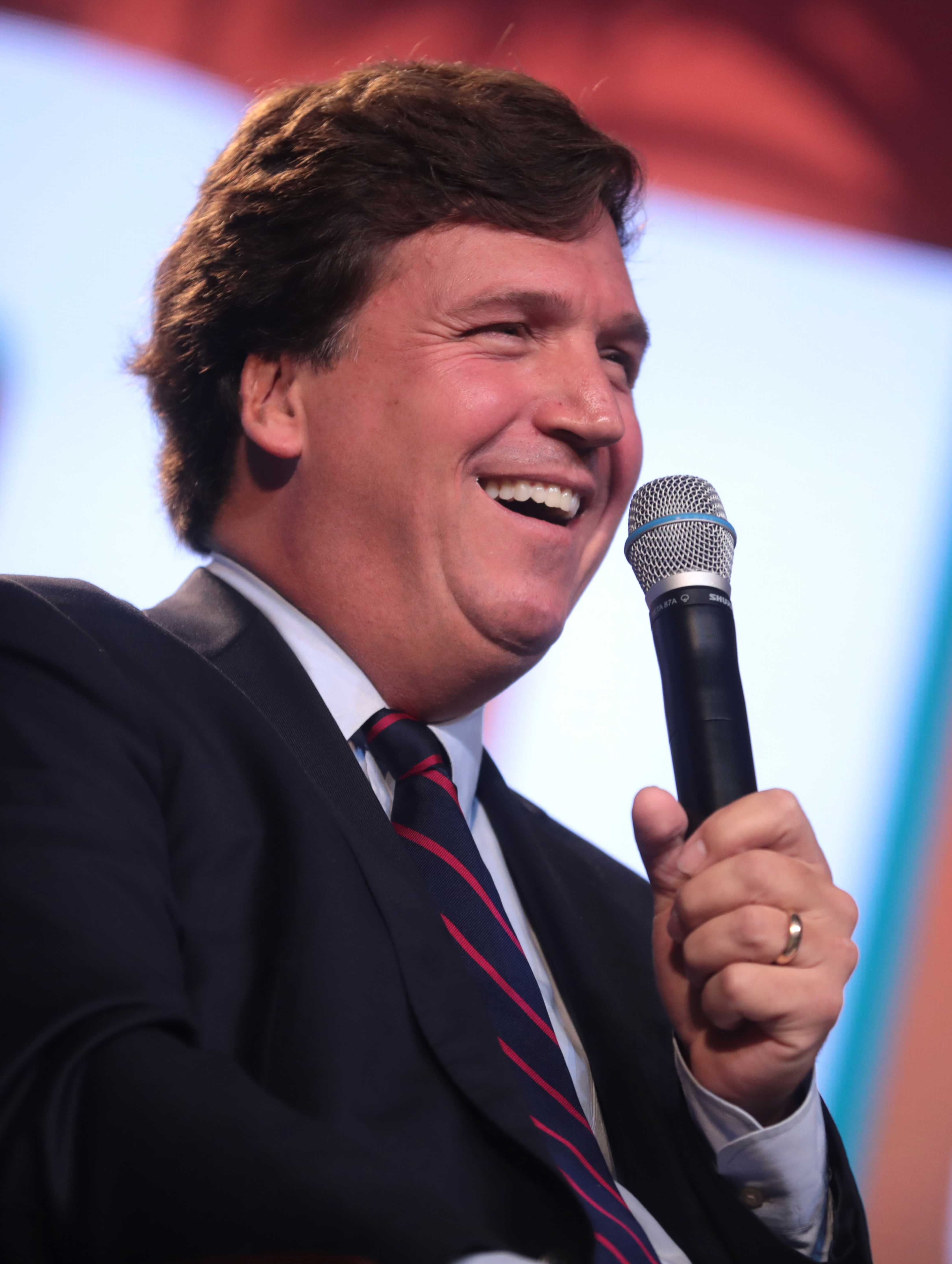 Tucker Carlson speaking at an event in West Palm Beach, Florida.